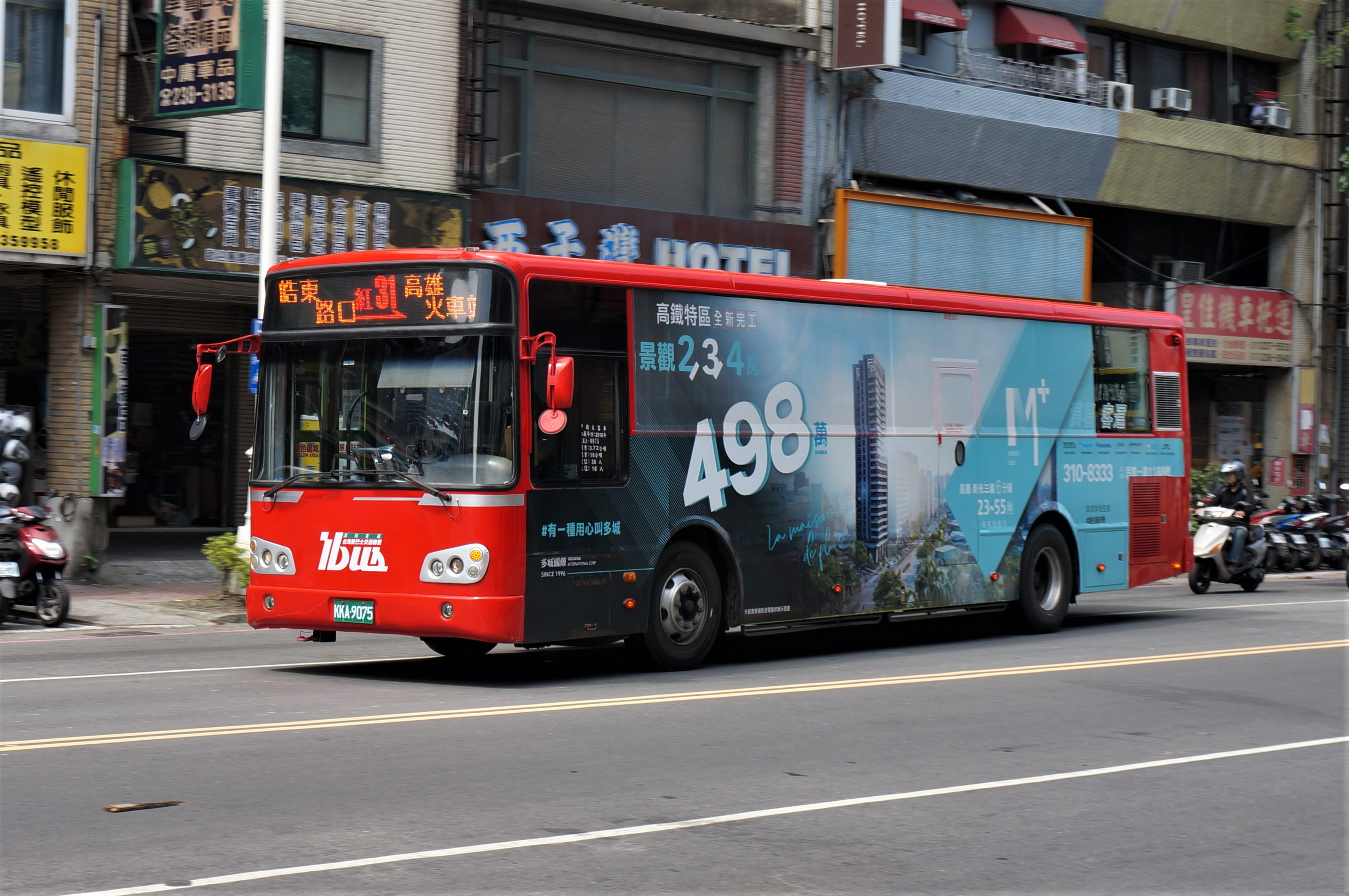 Han Cheng Bus KKA-9075